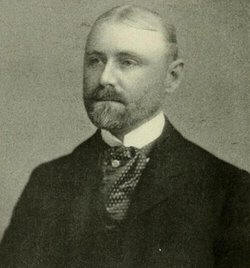 Formal portrait of Hugh Reid Belknap from 1901